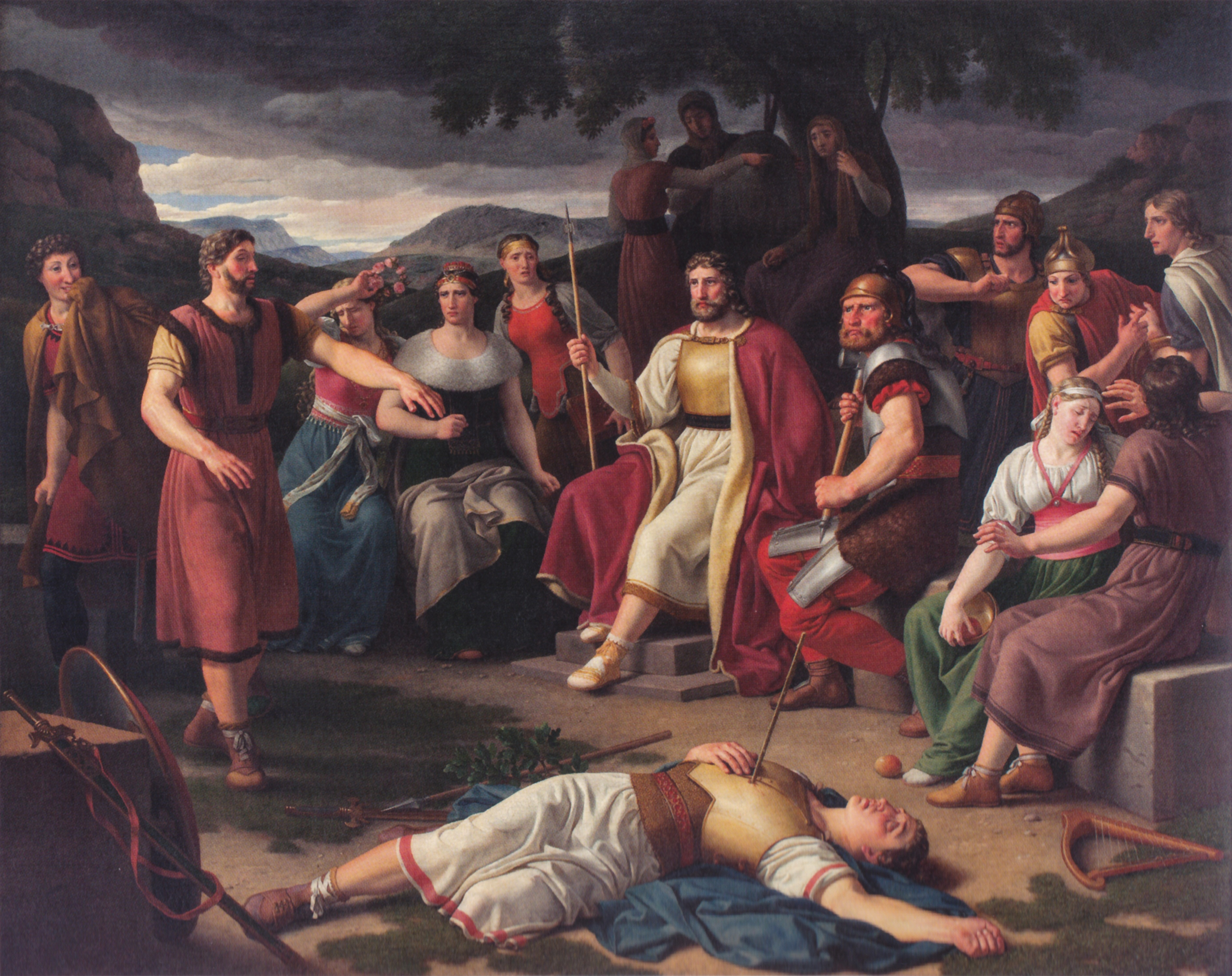 Baldr's Death Country of origin: Denmark Other notes